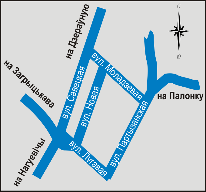 Map of village Choroszewicze. Беларуская (тарашкевіца): Мапа вёскі Харашэвічы Слонімскага раёну Гарадзенскай вобласьці.